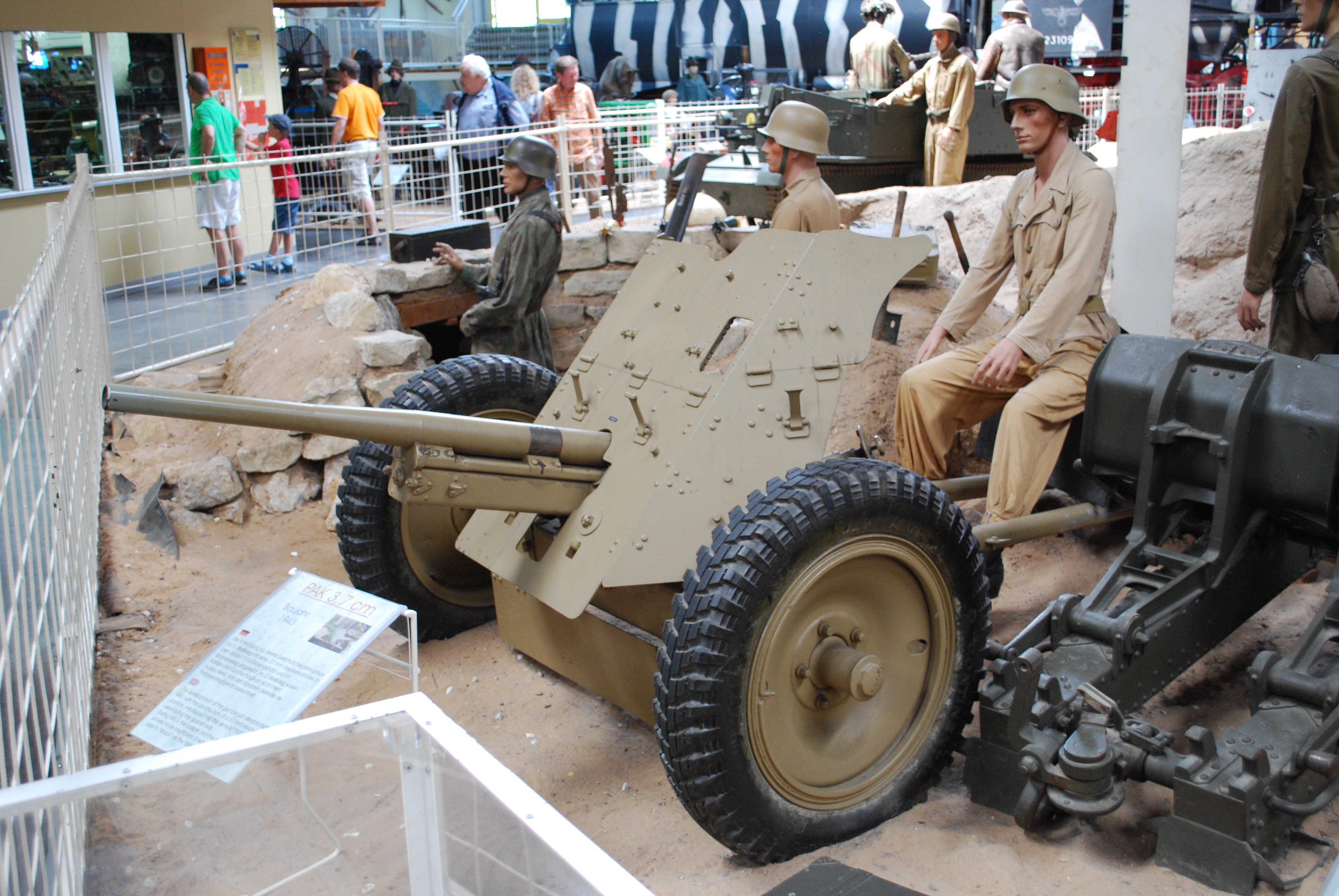 PaK 3.7 cm ant-tank gun at the Auto & Technik Museum, Sinsheim, 6/11.